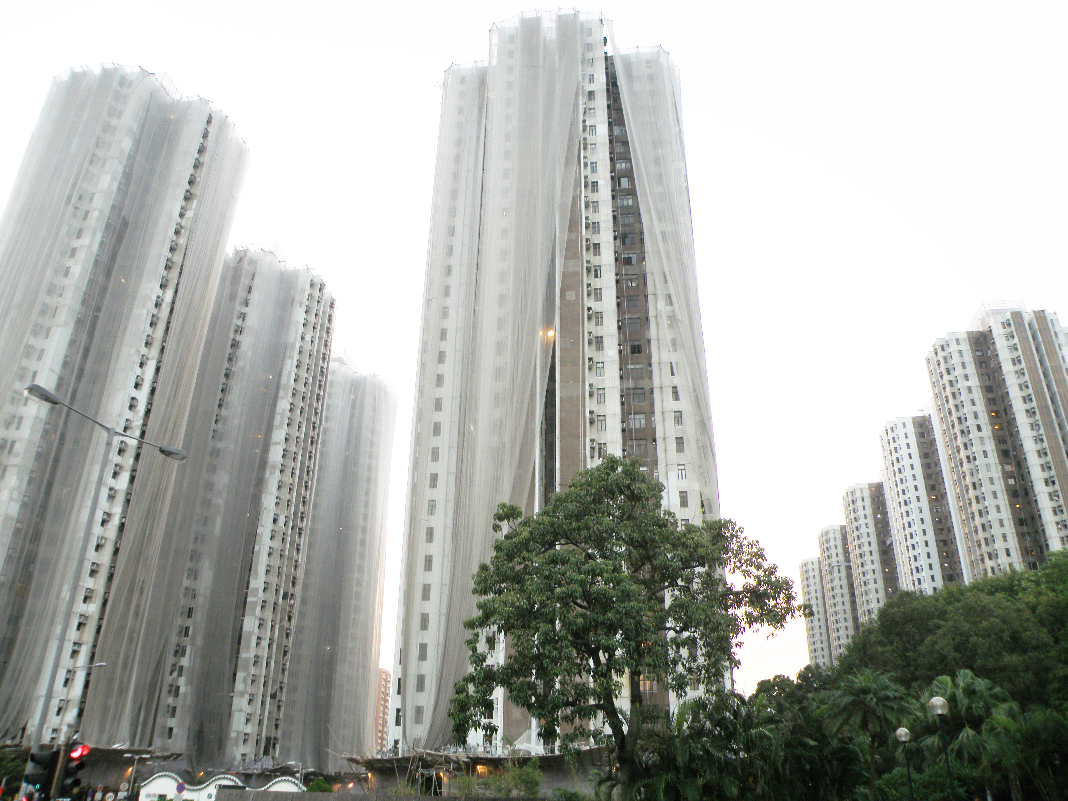 Luk Yeung Sun Chuen in Tsuen Wan, Hong Kong.